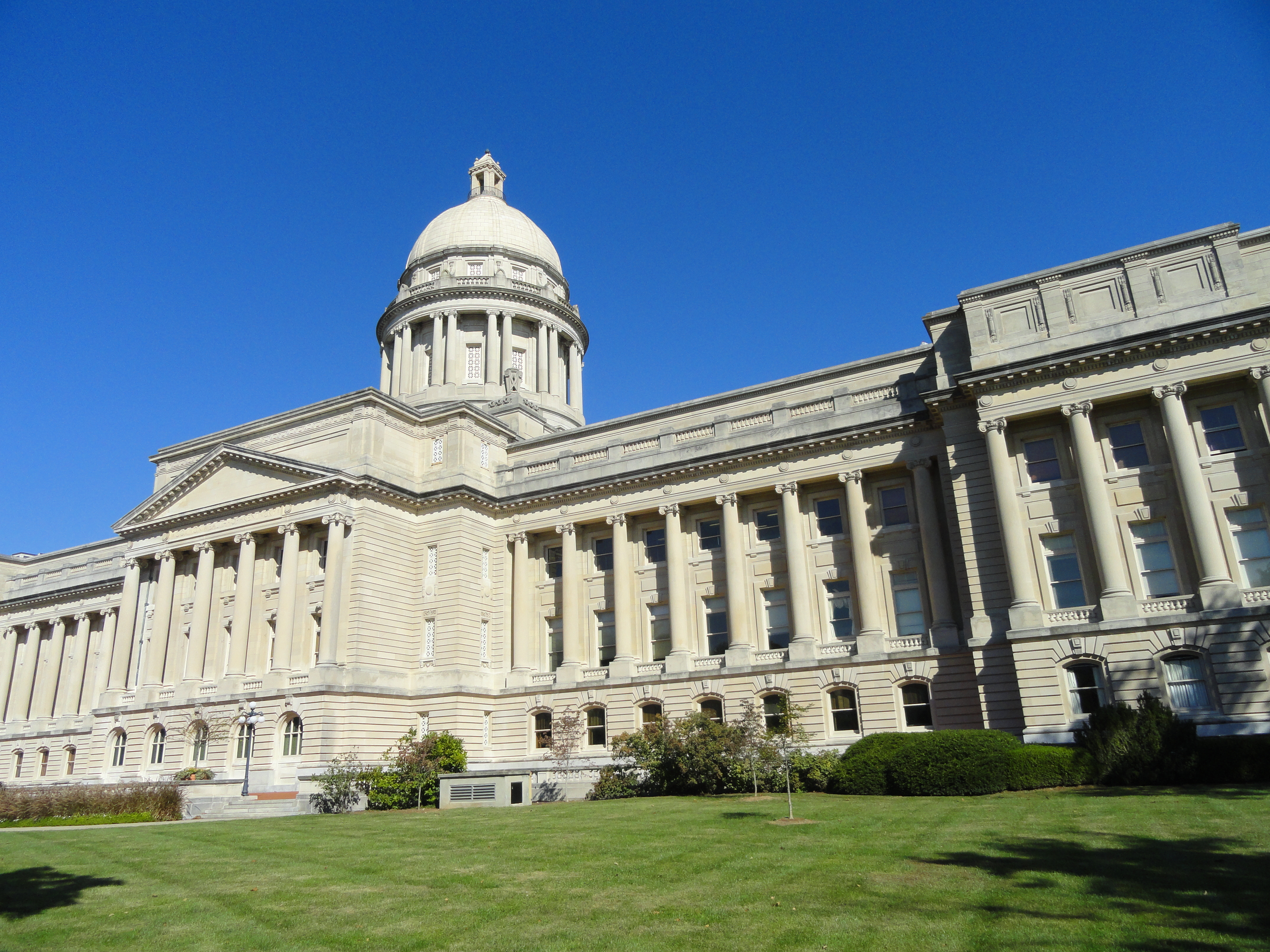 Kentucky State Capitol, Frankfort, Kentucky, USA.